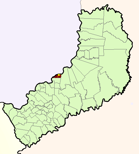 A map of Puerto Rico's municipio in Misiones province, Argentina. The big point is Puerto Rico city, the little right point is San Alberto town, the down little point is Mbopicuá town.